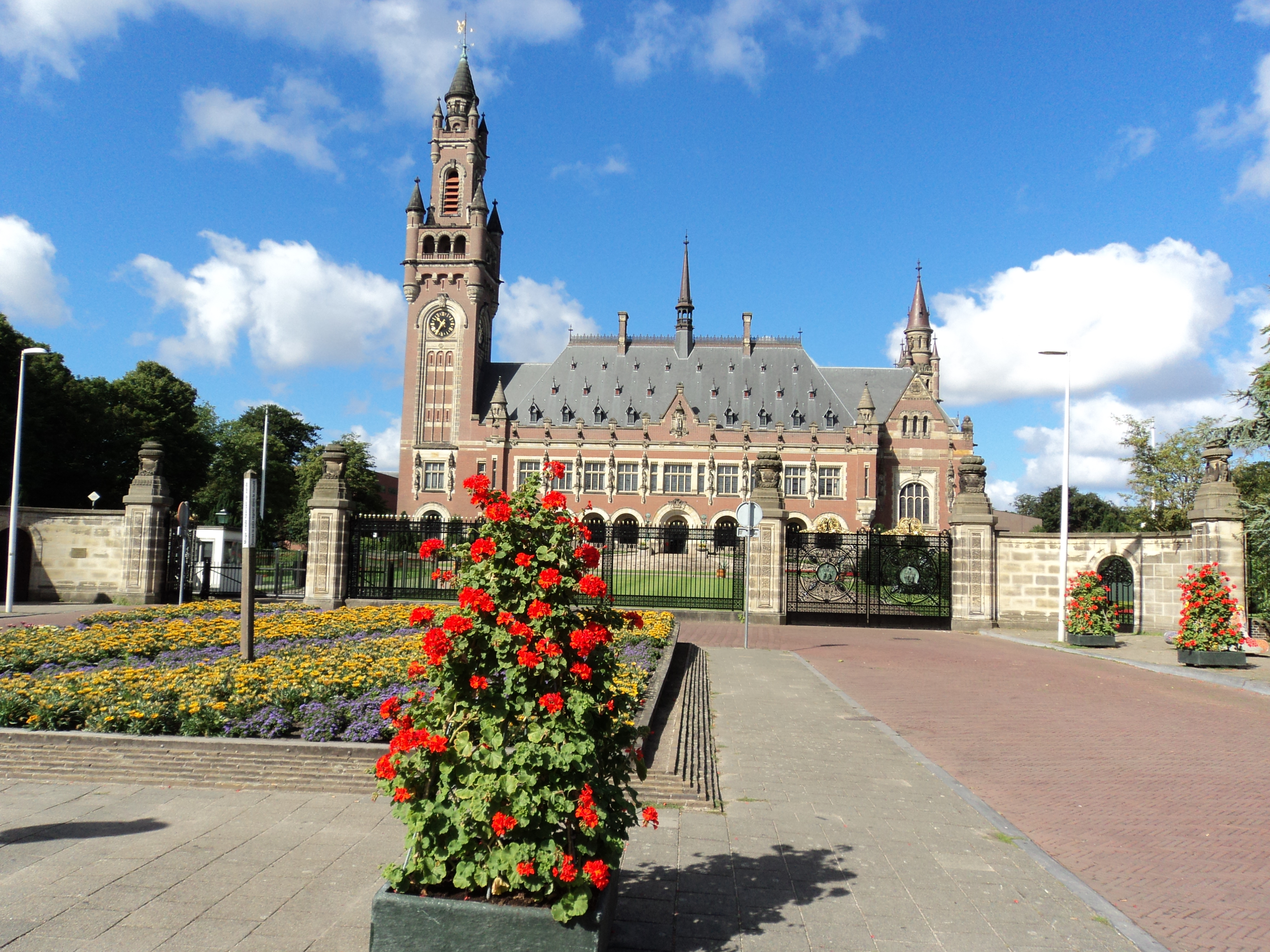 Peace Palace